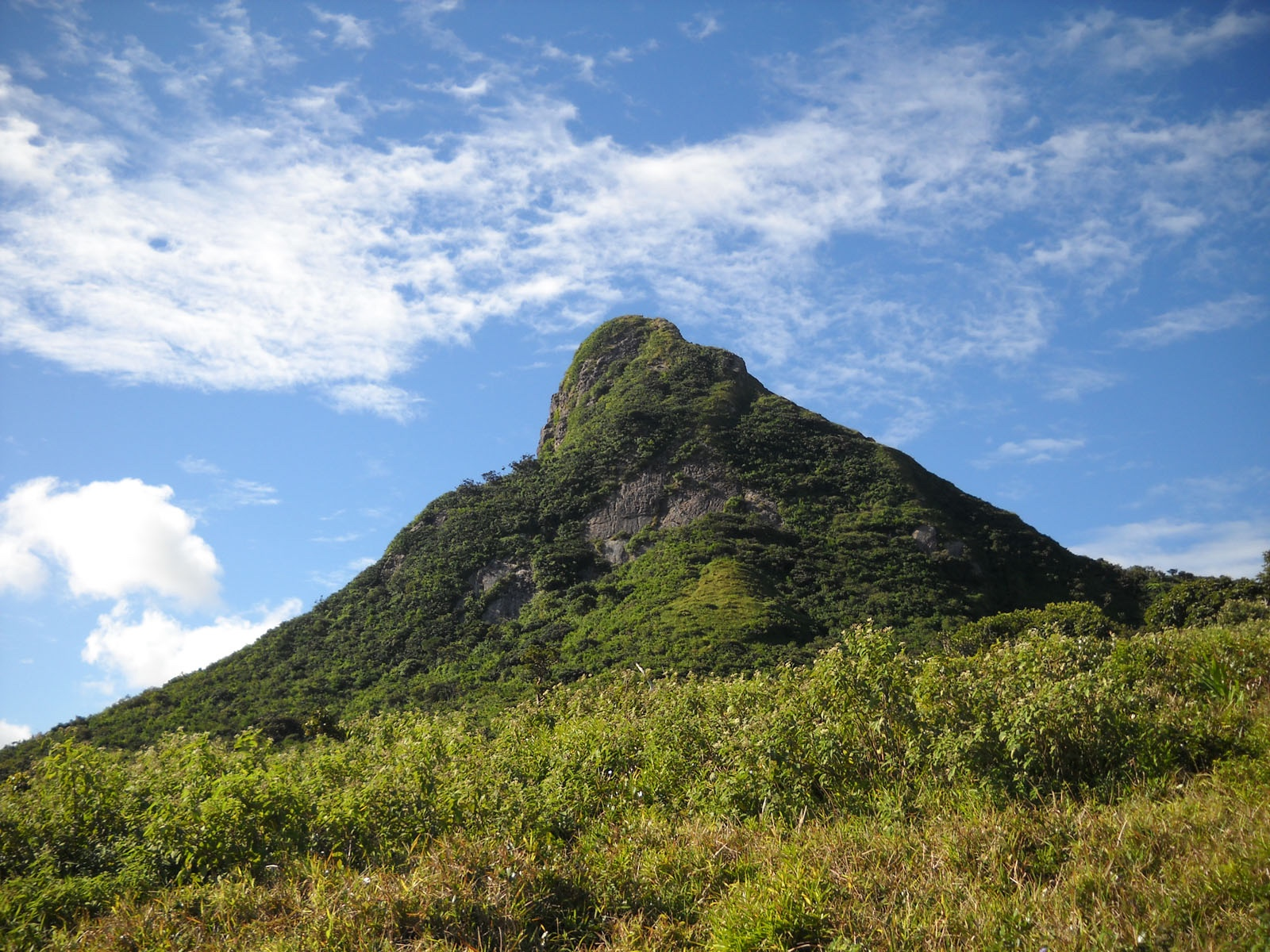 Le Pouce mountain , Mauritius island